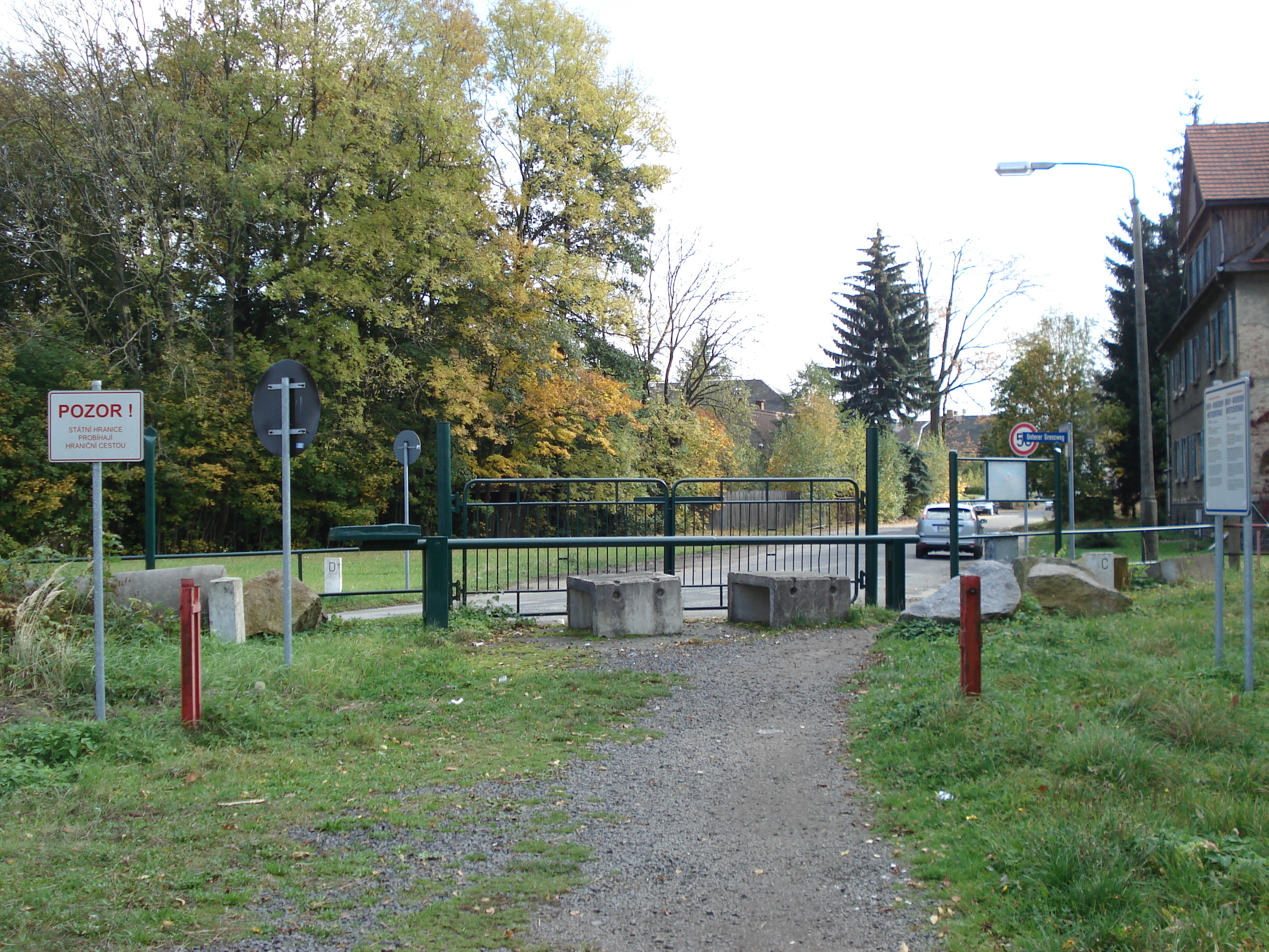 Border crossing, with both Czech and German boundary stones 9 on the left on each side of Grenzweg.